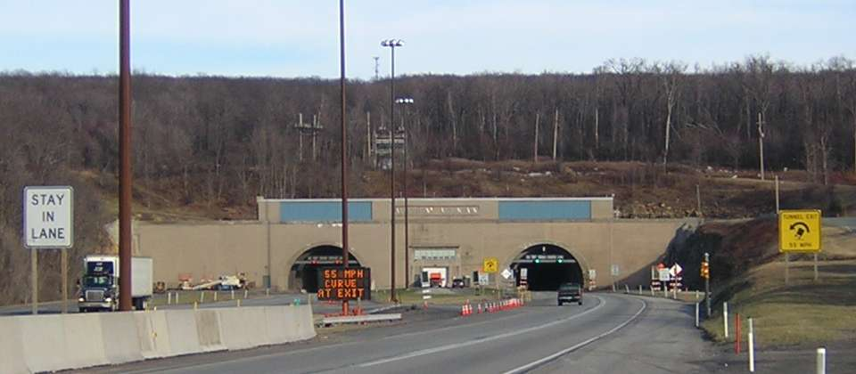 West portal of the Allegheny Mountain Tunnel on Interstate 76, the Pennsylvania Turnpike